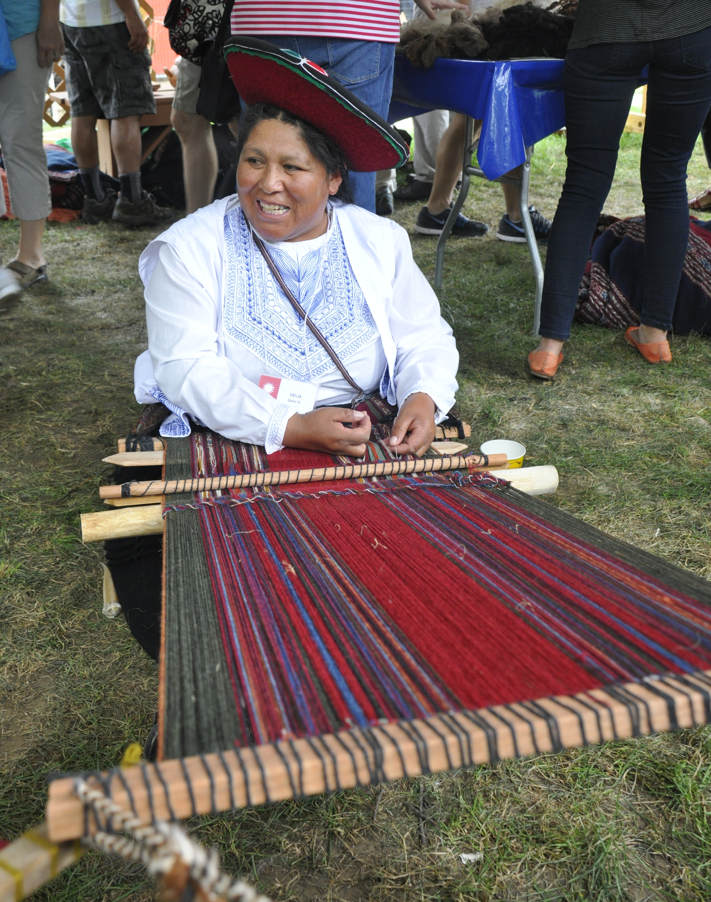 Cusco weavers from Chinchero community. In the 1970s, weavers from the Chinchero community formed a group to revitalize and reinforce the traditional textiles of the region, which were decreasing in quality and using synthetic dyes. In 1996, Nilda Callañaupa Álvarez created the Centro de Textiles Tradicionales del Cusco.[1]